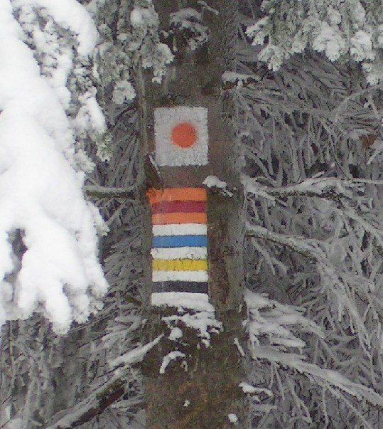 Signs of tourist horse-, ski-, and hiking-trails (from the top) in Sudetes, Poland.